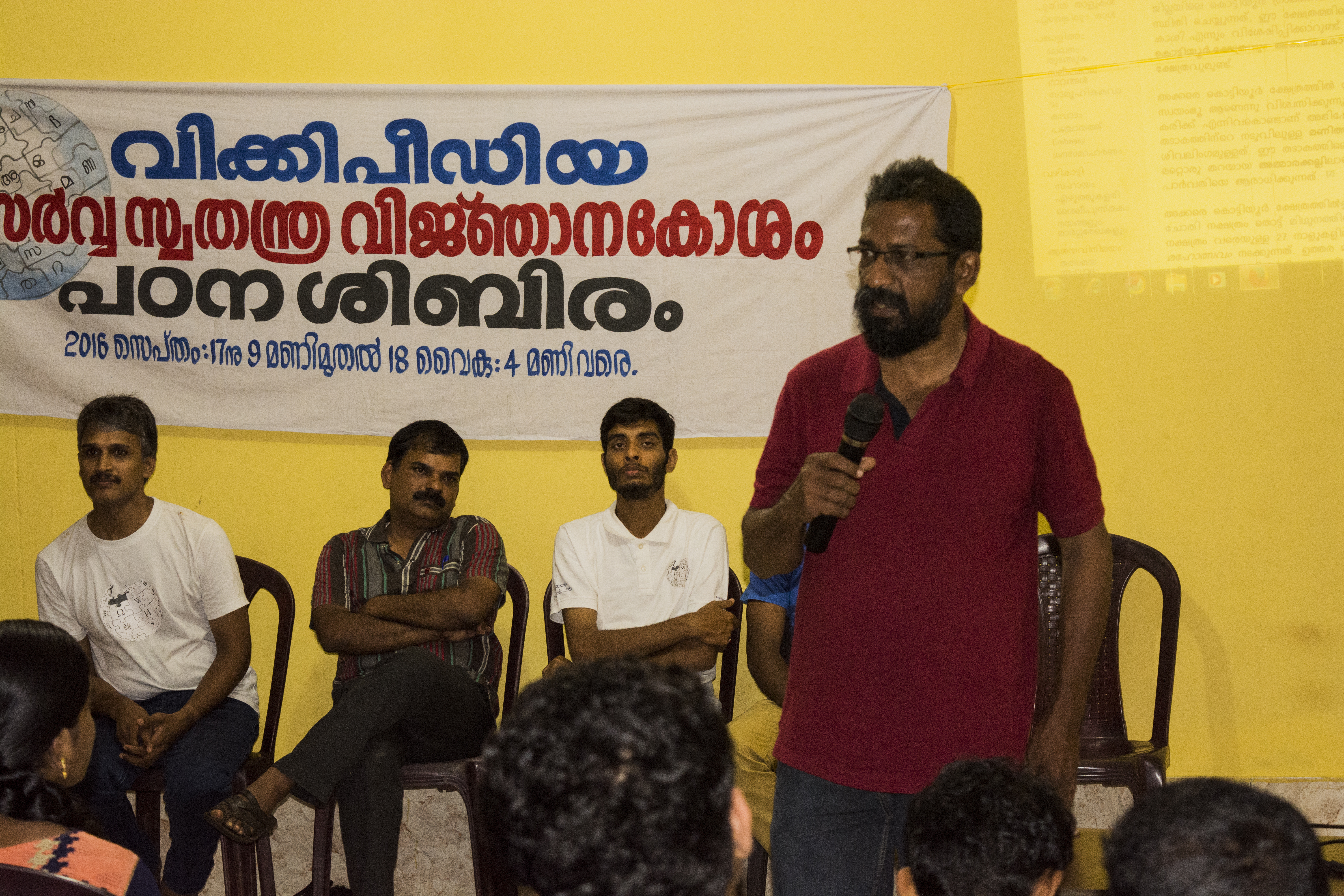 V.C.BALAKRISHNAN addressing the last session